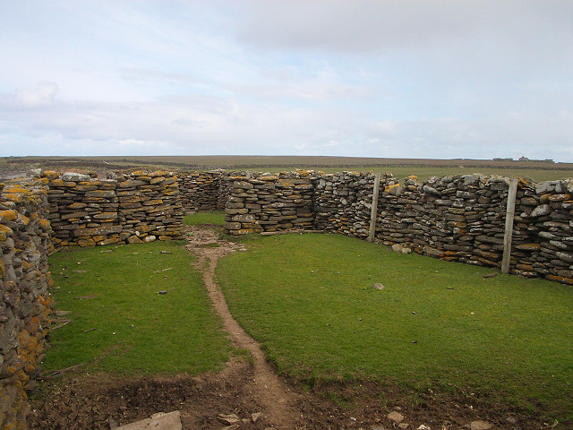 North Ronaldsay sheep pund. Apart from a few weeks at lambing time, North Ronaldsay sheep live on the beach outside the sheep dyke. Punds alongside the dyke like these are used when the sheep are rounded up.